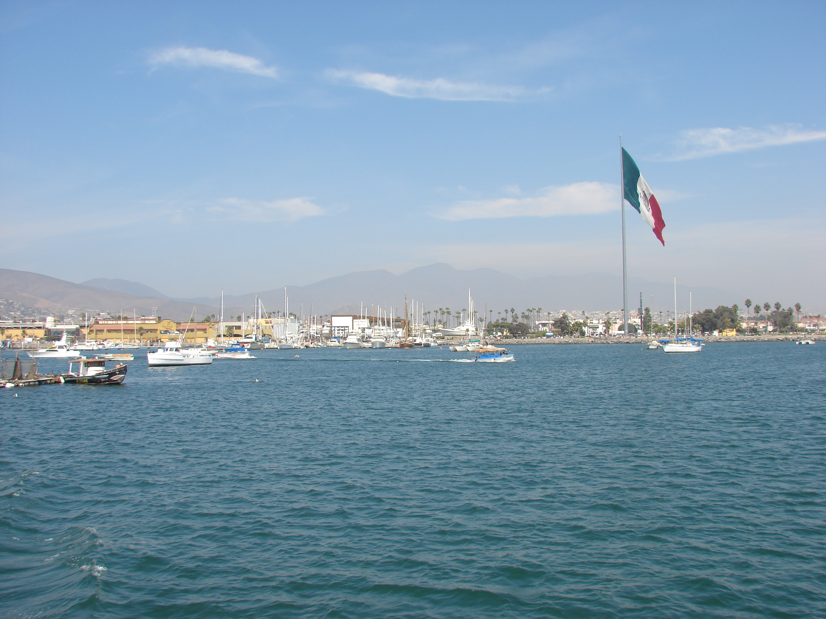 Banderas Monumental in Ensenada, Baja California state, Mexico. The "Banderas Monumentales" (monumental flags) are a set of monuments located throughout Mexico.